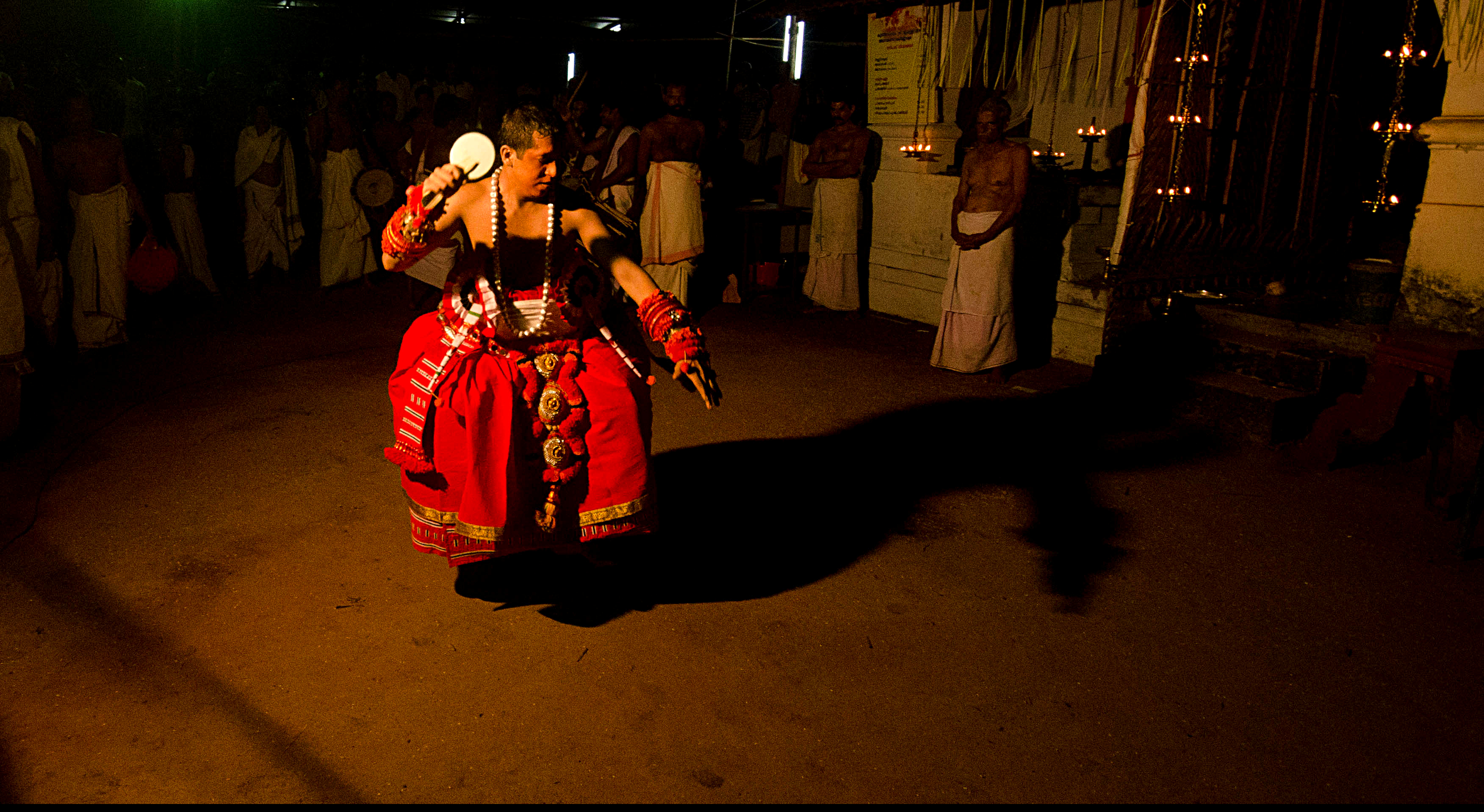 Thottam attire of Kattaakarnan theyyam